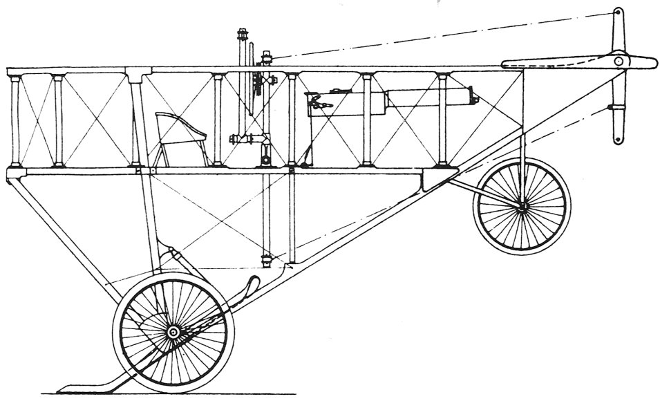 Drawing from Imperial German Patent Office nr. 248601 (1910) re. aircraft armament (Euler)